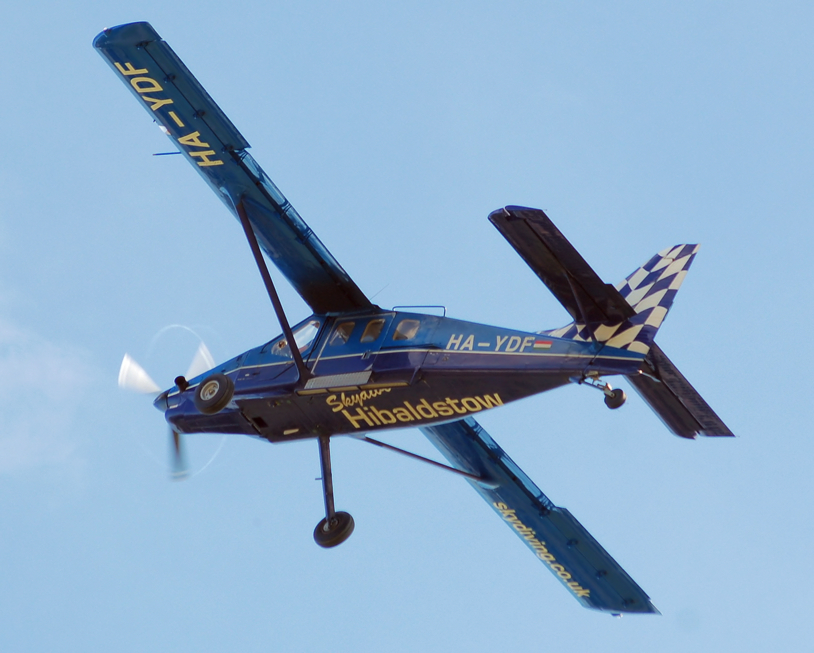 Technoavia SMG-92 Turbo Finist (Hungarian registration HA-YDF) at the Battle of Britain Weekend 2009 at Cotswold Airport, Kemble, Gloucestershire, England. This aircraft’s base is the skydiving centre at Hibaldstow, Lincolnshire